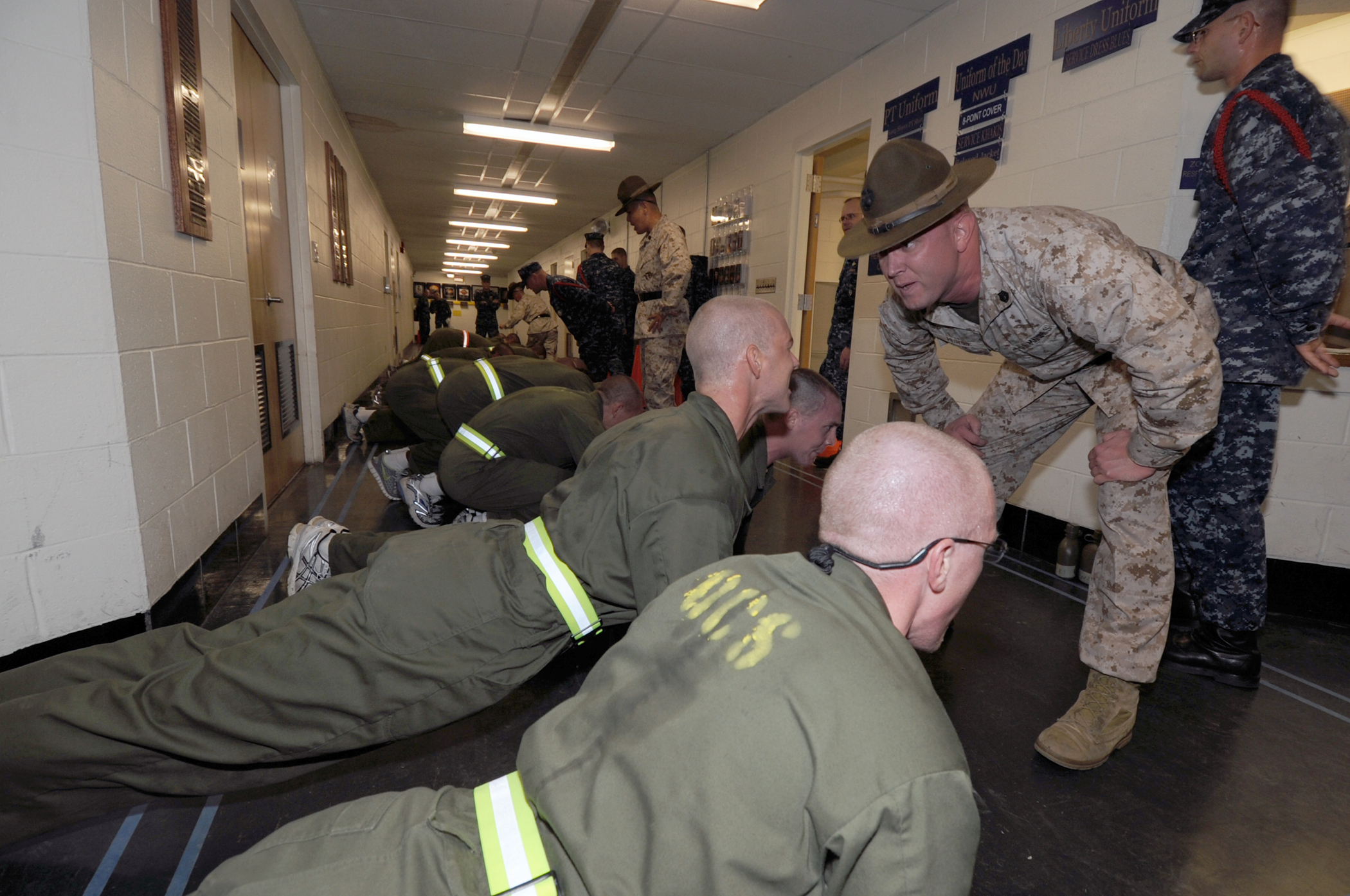 NEWPORT, R.I. (Oct. 29, 2010) Gunnery Sgt. Duncan Hurst encourages an officer candidate to properly perform pushups during the first week of the 12-week Officer Candidate School at Naval Station Newport. Hurst is one of 12 Marine Drill Instructors who train the candidates in military bearing, discipline, drill and physical fitness. (U. S. Navy photo by Scott A. Thornbloom/Released)